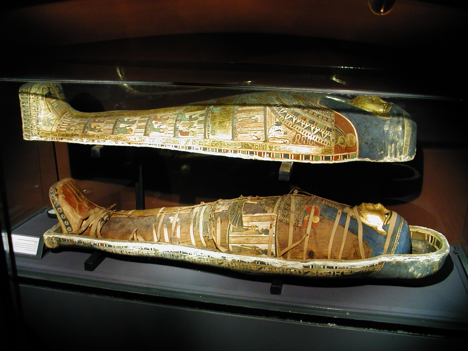 Sarcophagus and mummy, painted wood, Late Period. National Museum of Alexandria, Egypt.